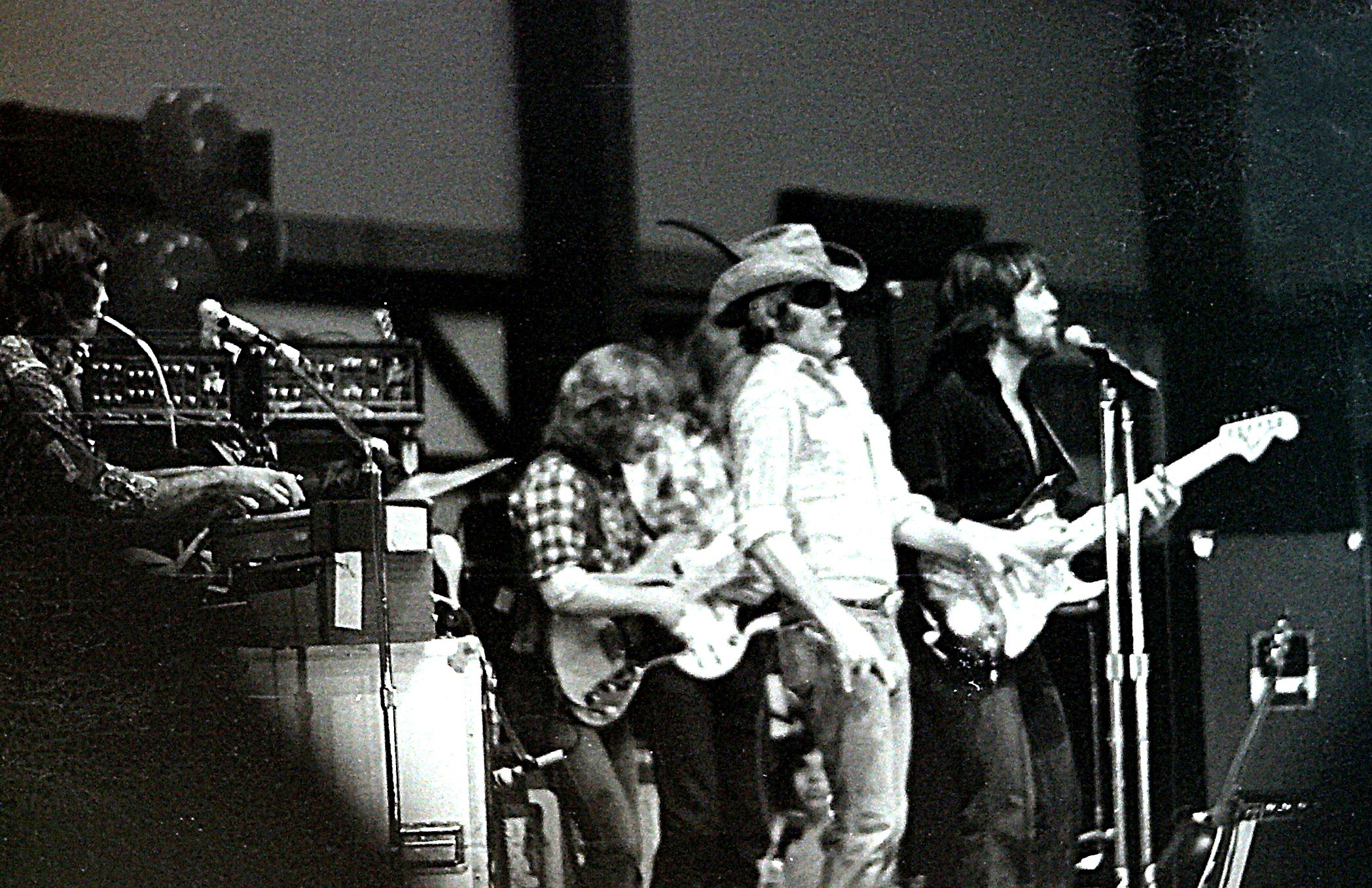 Dr. Hook and the Medicine Show perform at a telethon in 1977.